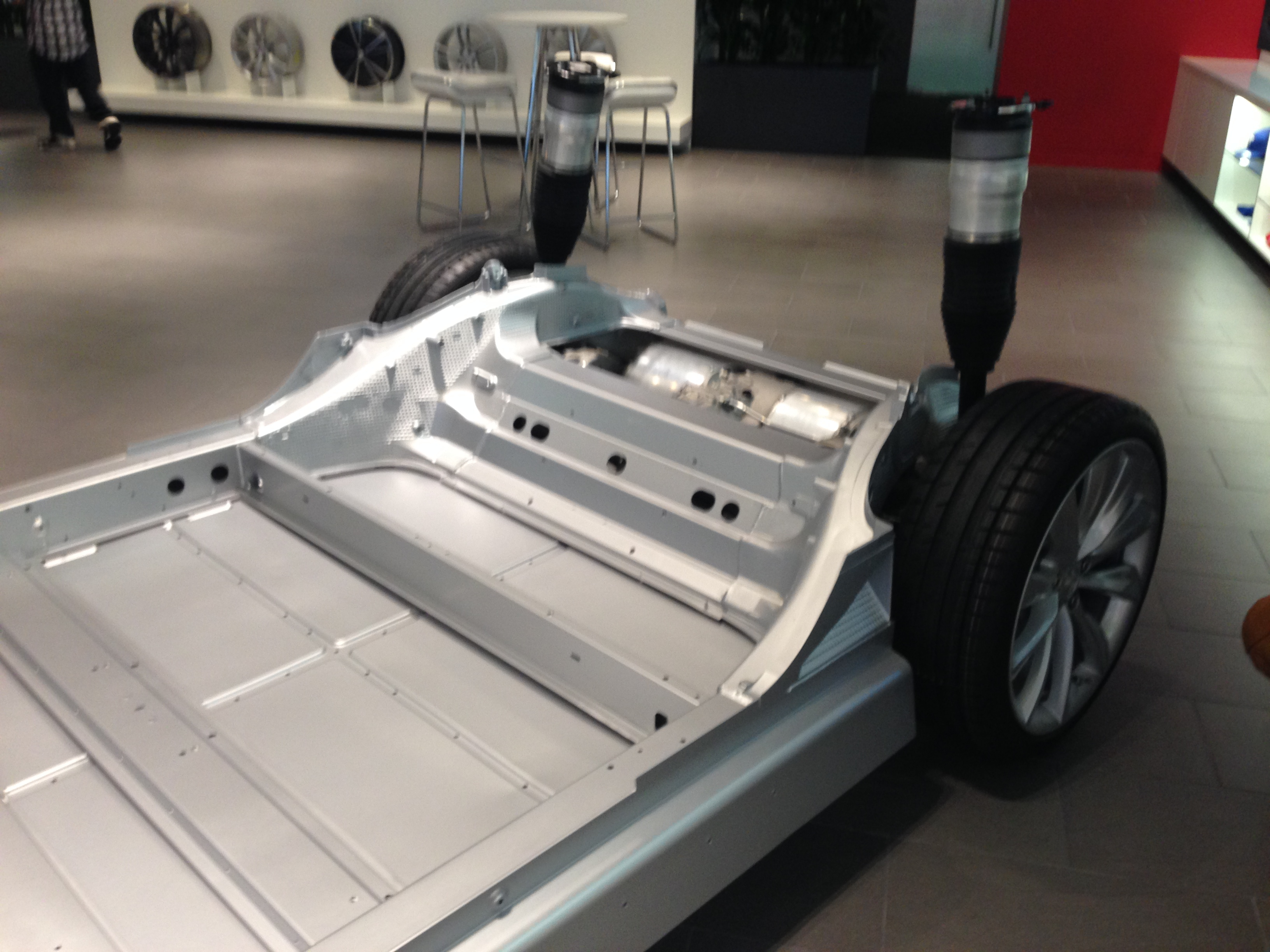 Detail from the subframe of a Tesla Model S